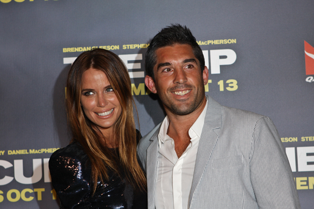 Jodi Gordon with Braith Anasta at The Cup Movie Sydney Premiere The film is based on jockey Damien Oliver winning the Melbourne Cup in 2002. It was the ride that made him (and the horse of the day) Media Puzzle, famous around the globe. All of this and more happened just one week after the passing away of his brother Jason. Curry plays Oliver in what what the most chaotic, yet also exciting, part of the jockey's life. The Cup follows Oliver's decision to ride in the 2002 Melbourne Cup. It was just days after his brother Jason died in a track fall. Oliver knew he was making history at the time, but was unaware it was up there with 'Phar Lap' lore. Oliver said it was a bizarre experience to watch a traumatic piece of his life unfold in film. "It's kind of weird ... it couldn't be any more emotional than actually living through it, but every time I do see vision of it, it really brings it back home to me," he said. The two-time Melbourne Cup champ said he and Curry developed a friendship as the result of the movie. "He came around to our home to visit us, he came to the races with us, we took him to the barrier trials and we became good friends," Oliver said. Something tells us that we will get to hear a lot more about the flick from Sydney based media identity (and fresh actor) Daniel MacPherson, in the coming weeks. The Cup is of course for horse racing fans, but also those who enjoy a good Aussie yarn will also get a kick (hopefully not down there) from it. Back yourself a winner and see this film. 3.5 stars out of 5. Director: Simon Wincer Writers: Simon Wincer (screenplay), Eric O'Keefe (screenplay) Staring: Brendan Gleeson, Alice Parkinson and Daniel MacPherson Websites The Cup official website Roadshow Films Village Roadshow Credit: Julia Molodeva